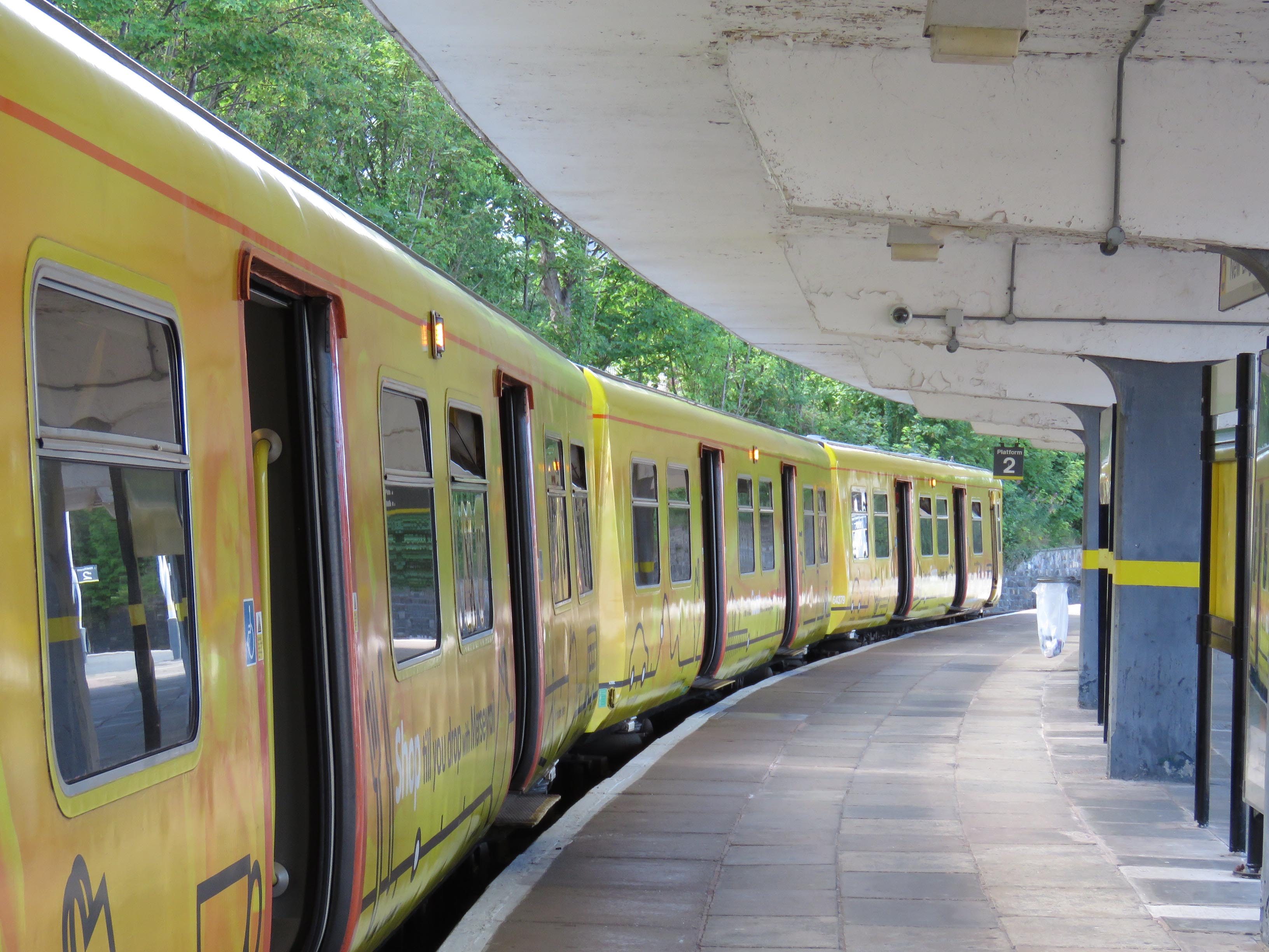 Merseyrail train in New Brighton station